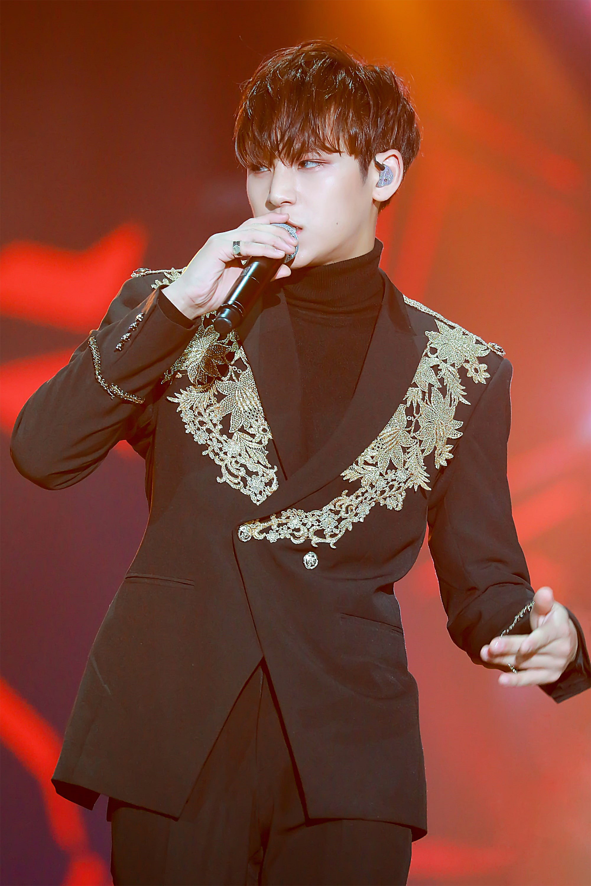 Kim Min-gyu during at 32nd Golden Disc Awards on January 11, 2018.